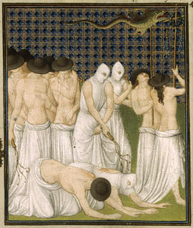 "Procession of flagellants" page from The Belles Heures of Jean of France, Duke of Berry, French. Ink, tempera, and gold leaf on vellum; 9 3/8 x 6 5/8 in. (23.8 x 16.8 cm), The Cloisters Collection, 1954 (54.1.1). the Metropolitan Museum of Art. Folio 74v